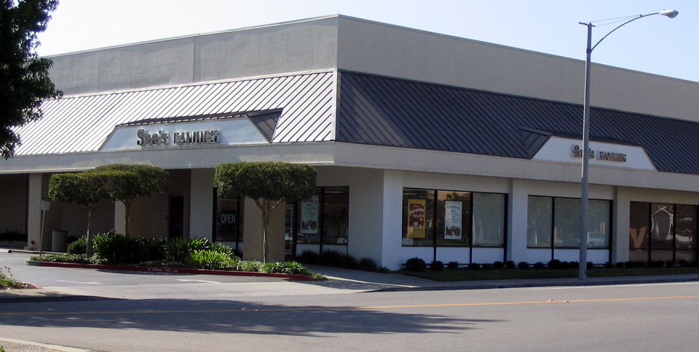 A See's Candies store in the Cherry Chase Shopping Center in the city of Sunnyvale. The bright white color scheme and the logo are standard, but in several other aspects, the architecture of this shopping center (notably, the faux-mansard roof and thick support columns) differs significantly from the architecture of stand-alone See's Candies stores.